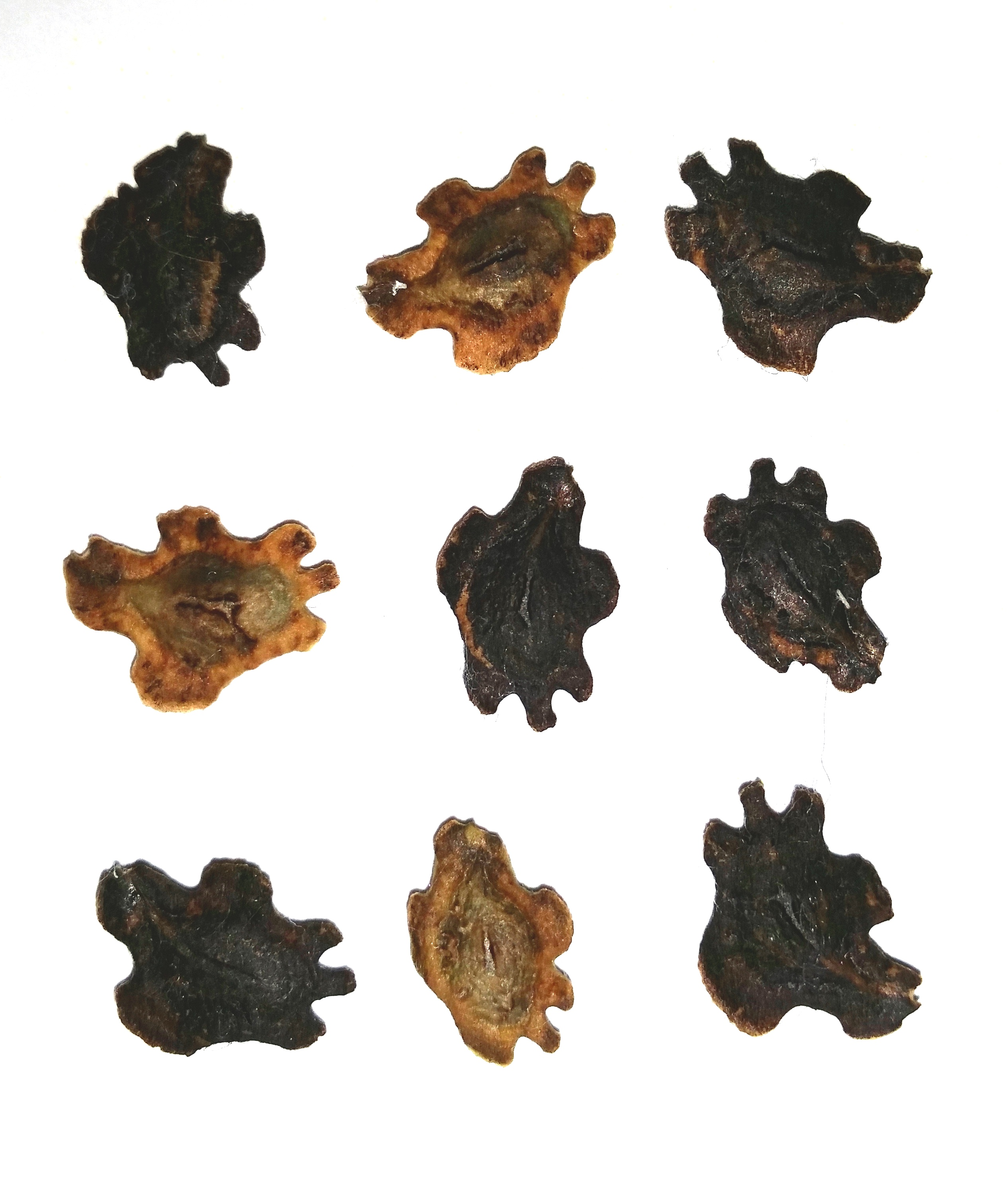 Seeds of Cyclanthera explodens (Exploding Cucumber [not Squirting Cucumber])